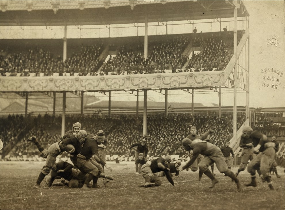 1916 Army-Navy game at the Polo Grounds in New York City.